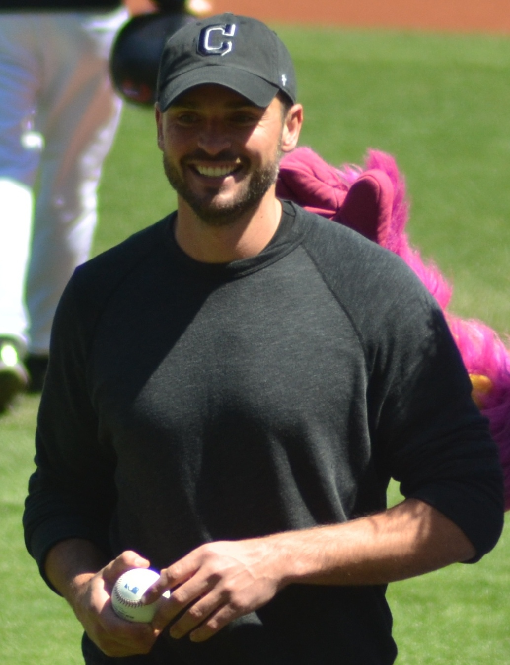 Welling invited to throw the first pitch for the Cleveland Indians with their mascot, Slider.